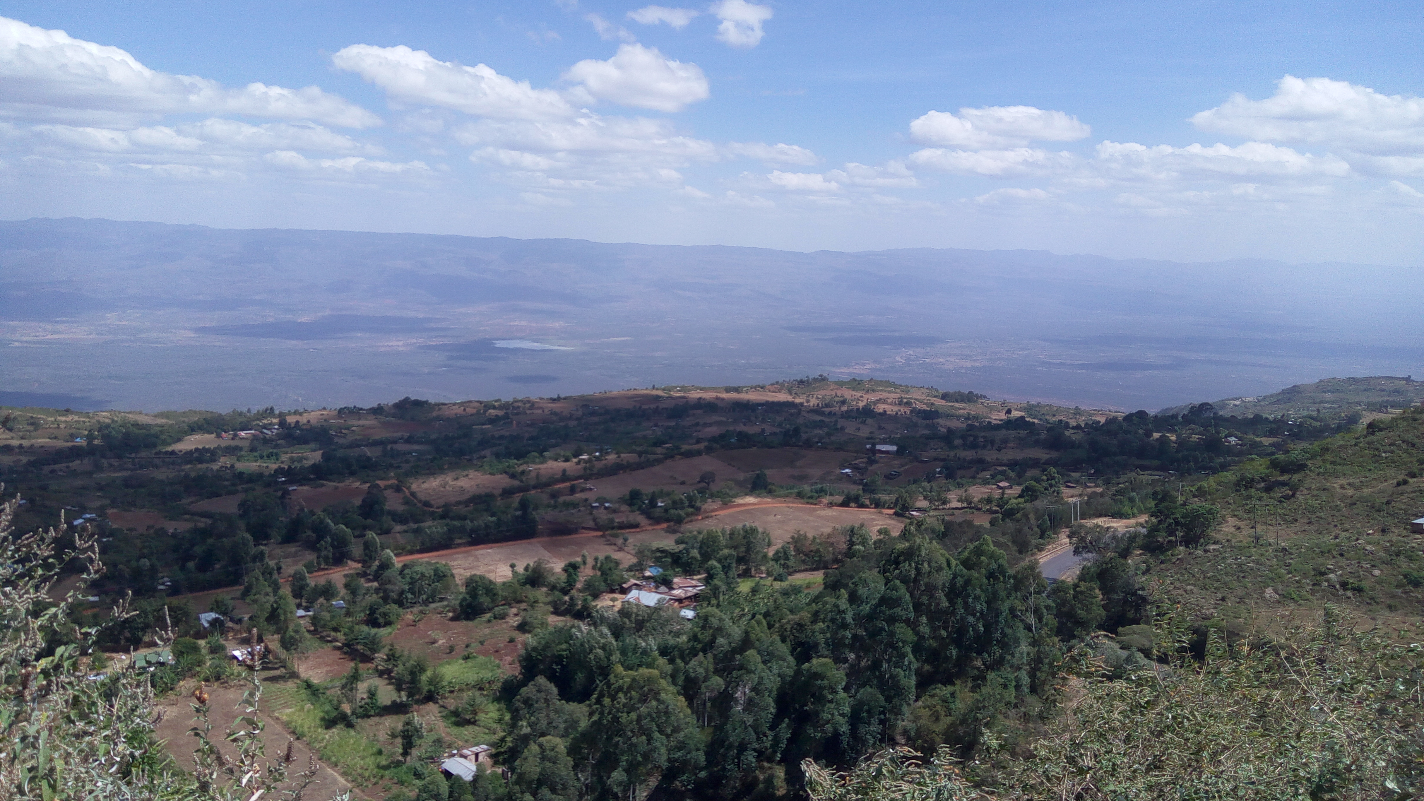 Keiyo escarpment with lake kapnarok